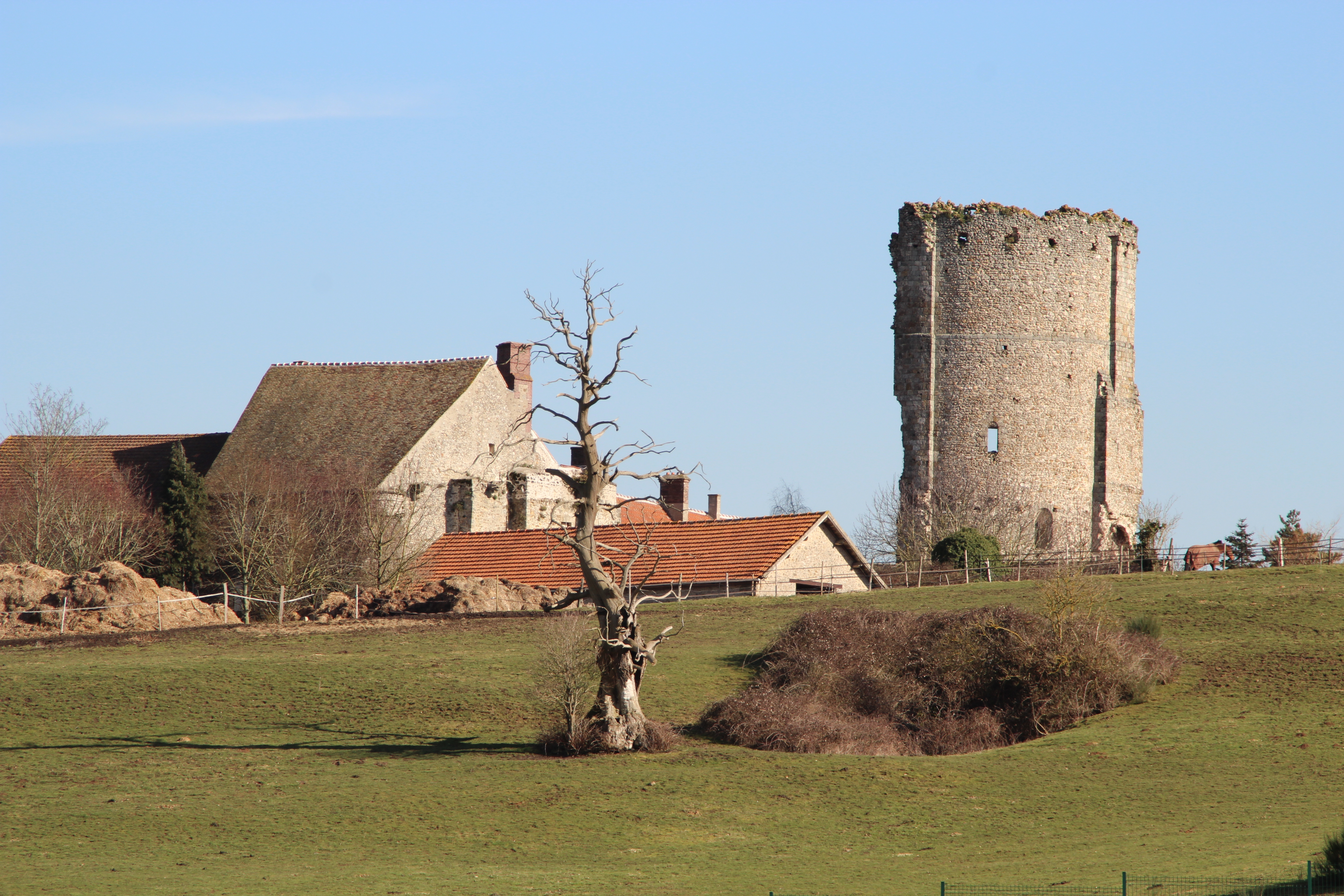 Keep of Maurepas, France. - Google Maps - Google Earth